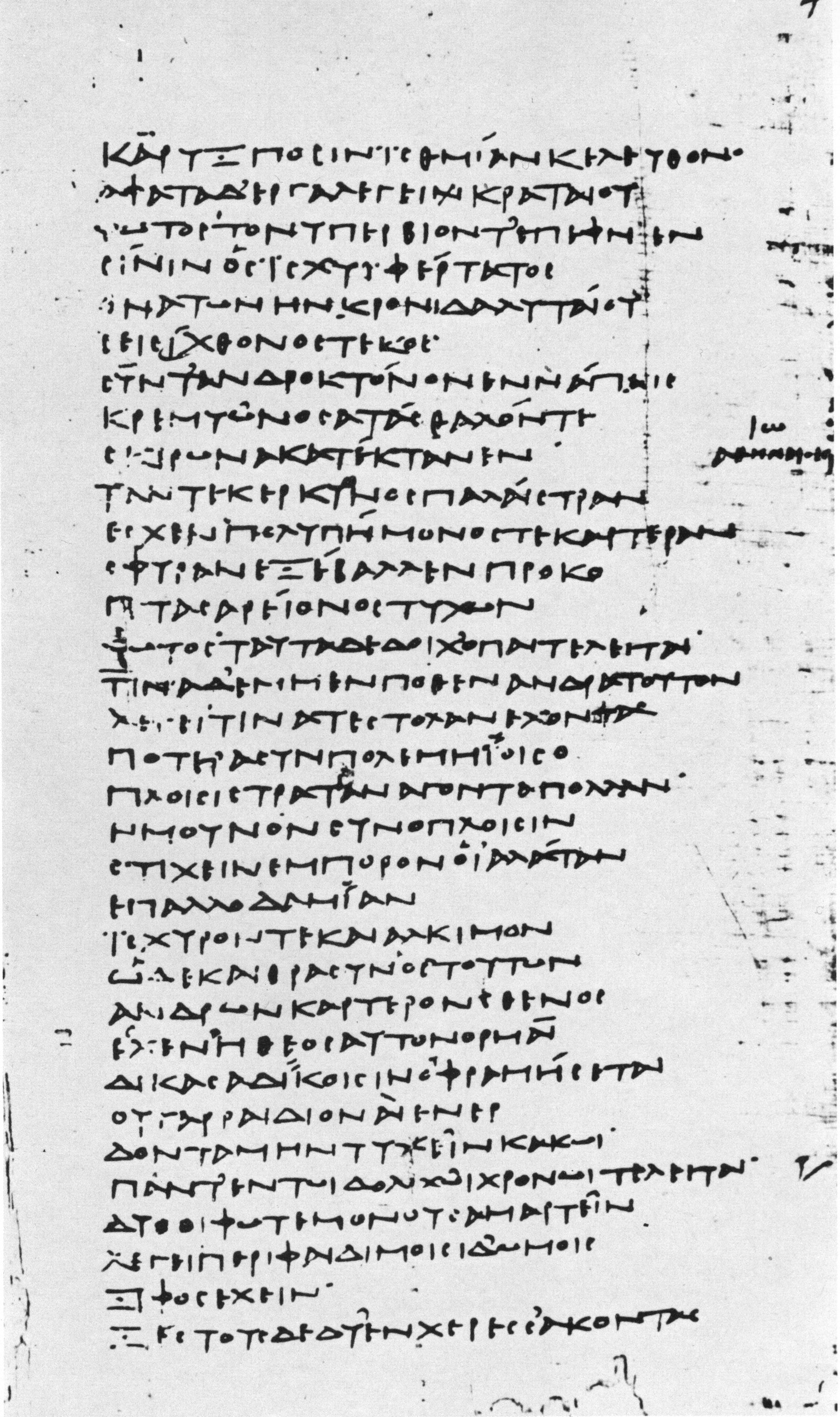 Bacchylides, Dithyrambs XVIII 17-49 in London, British Library, Papyrus 733.